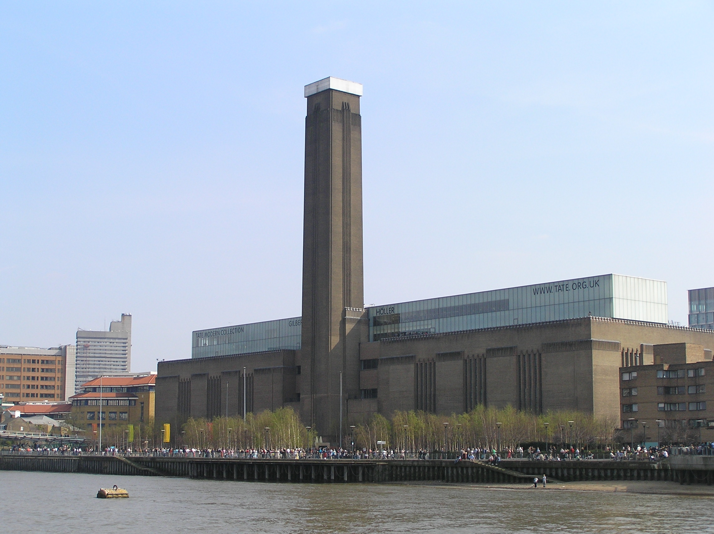 A view of the Tate Modern in London from the River Thames.